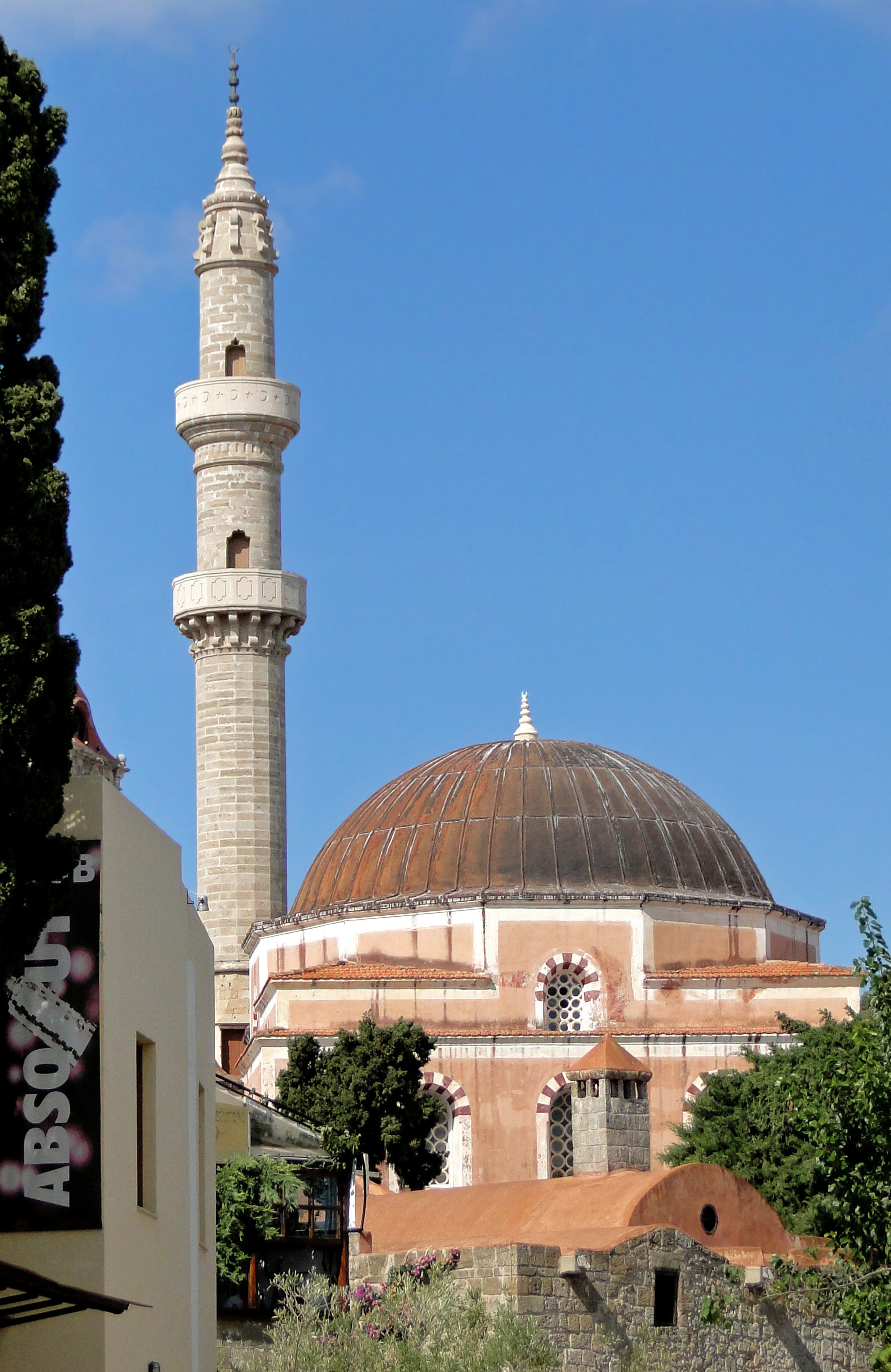 Suleiman Mosque in the Medieval City of Rhodes, Greece